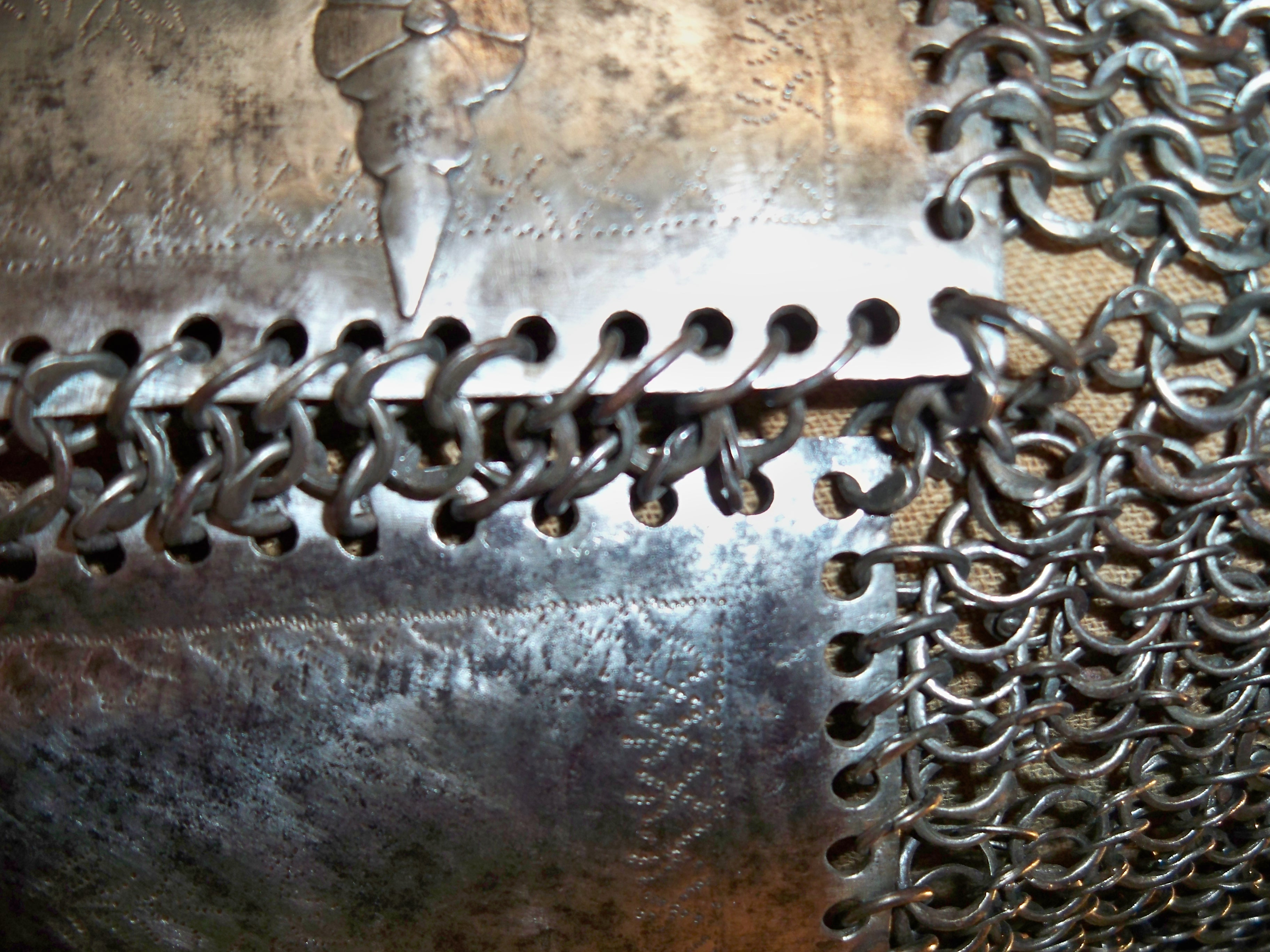 Close up of antique Mughal riveted mail and plate coat zirah bagtar.